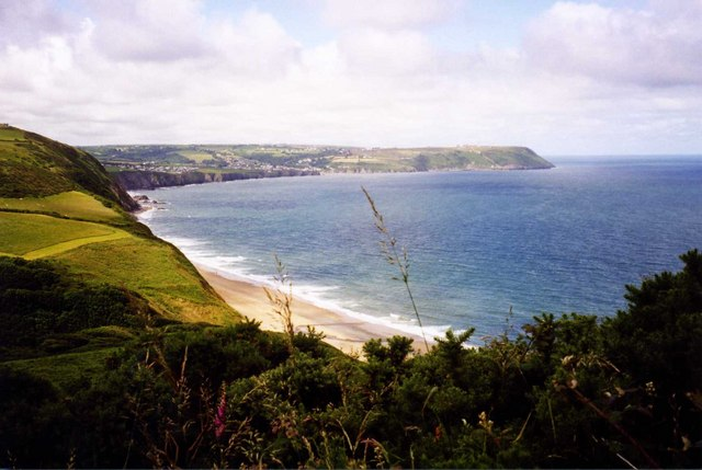 Penbryn Beach from coastal path